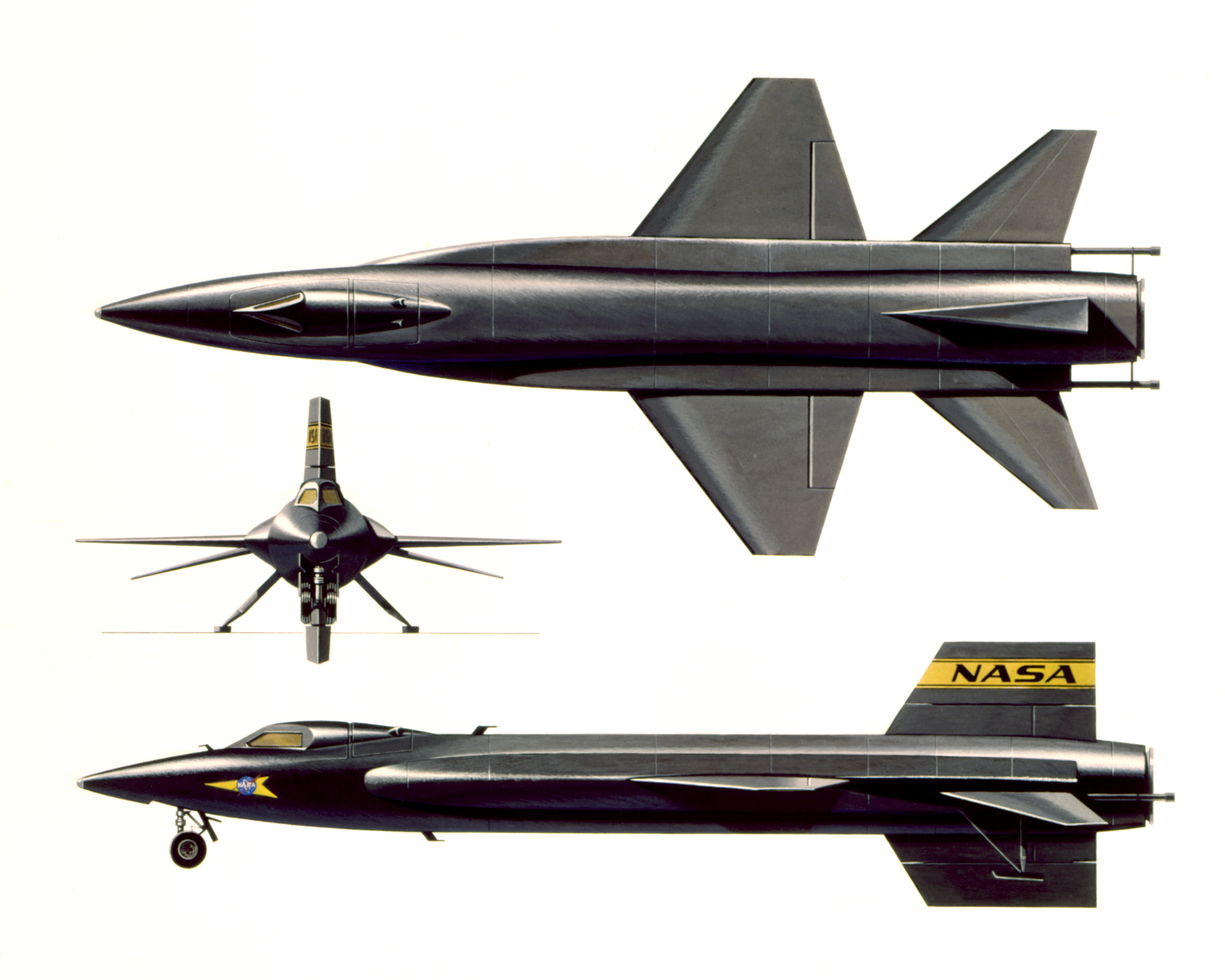 North American X-15 three side view.